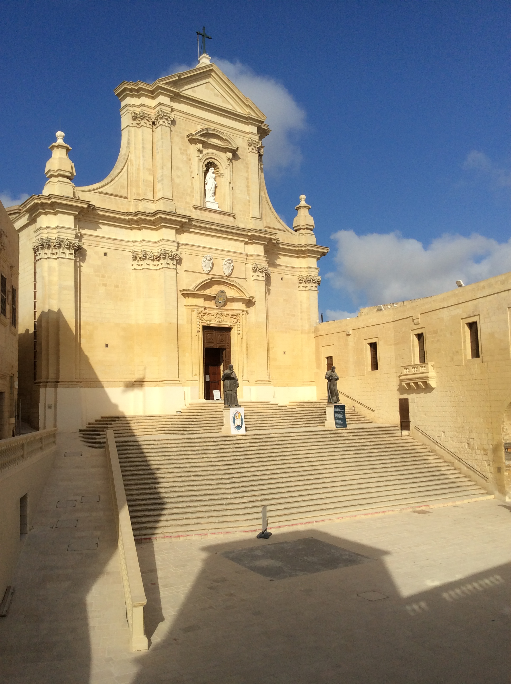 Cathedral of the Assumption (Gozo) and stairs